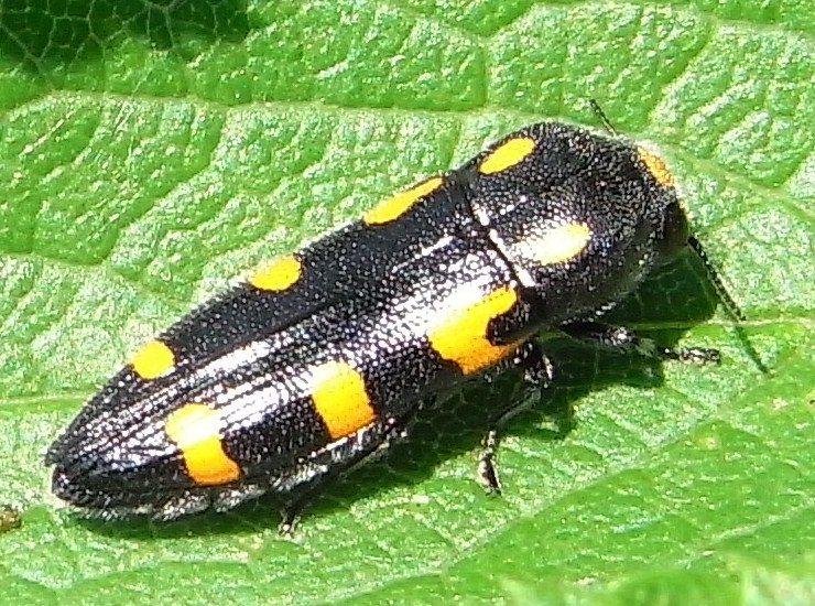 Ptosima undecimmaculata undecimmaculata from East-Hungary near Bekescsaba at 2010-05-26 Ricoh R8